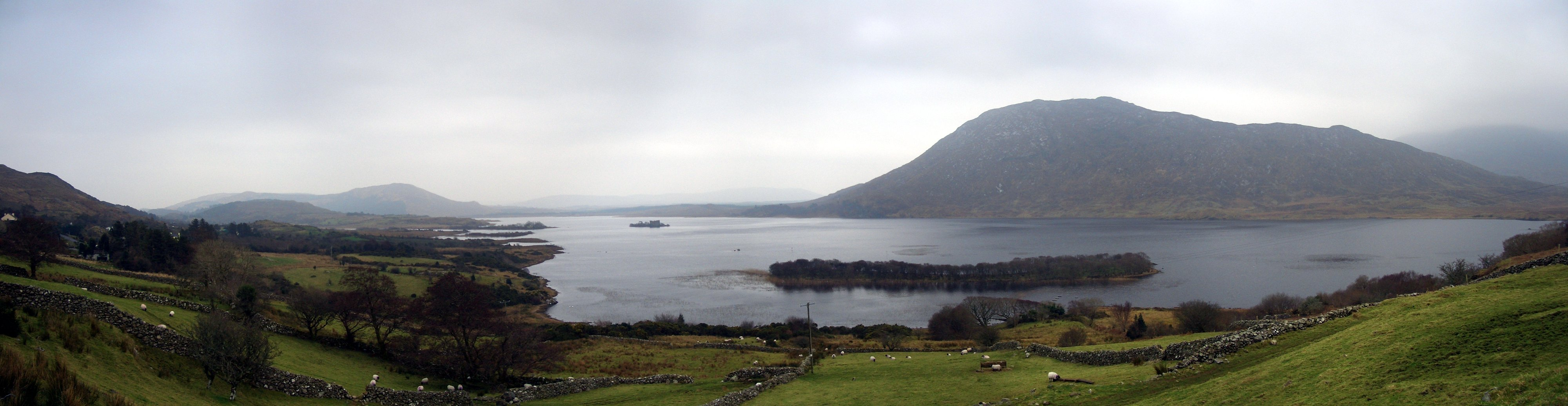 Lough Mask (.it), county Mayo, Ireland. My second panorama from Connemara today, this is the Southern-most part of Lough Mask.